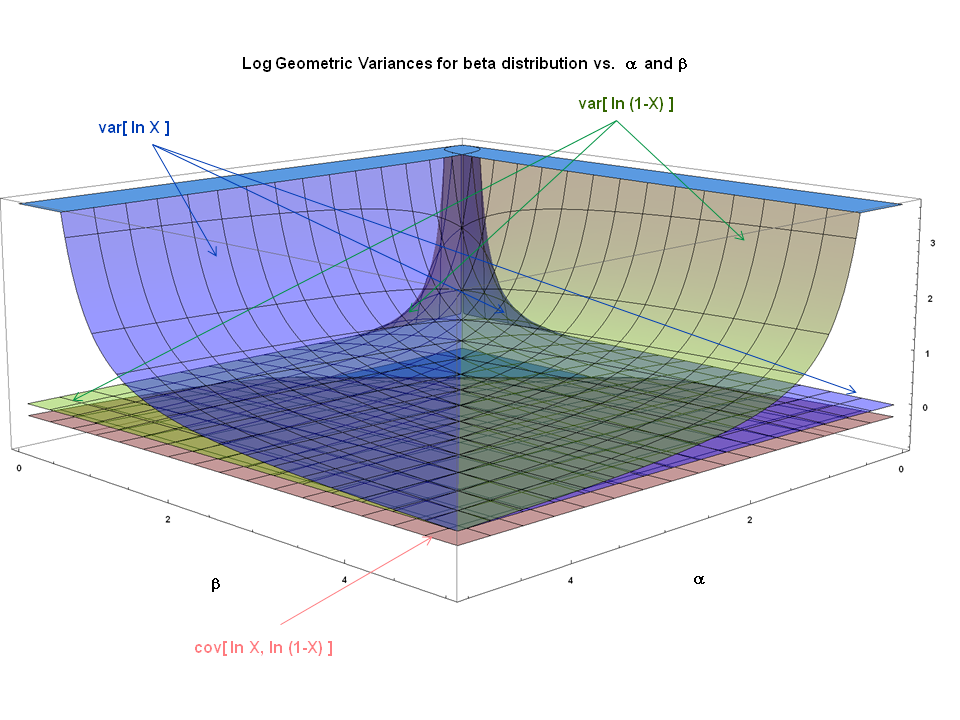 Beta distribution log geometric variances front view - J. Rodal